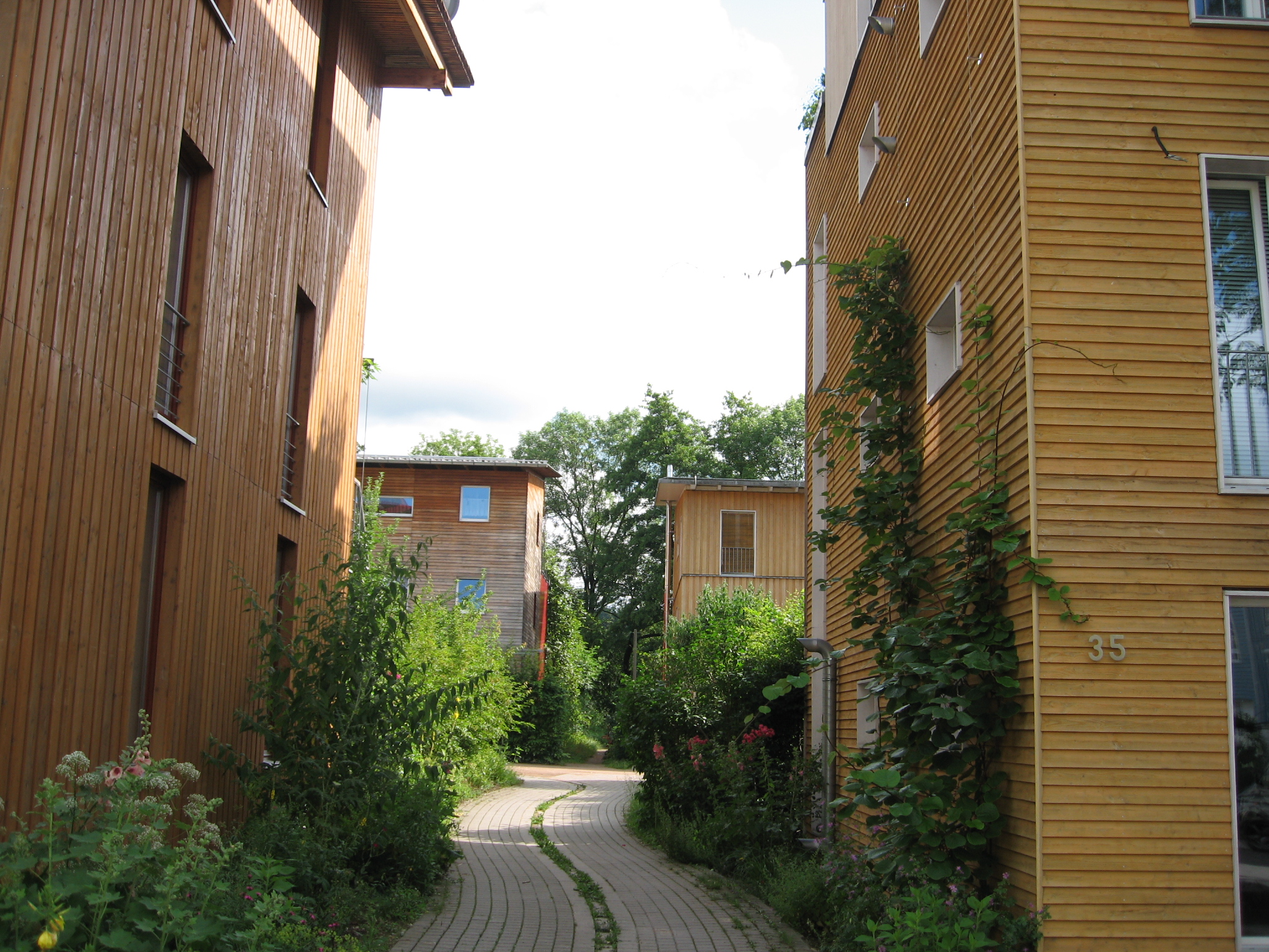 Vauban Quarter of Freiburg, Germany, Rahel-Varnhagen-Straße